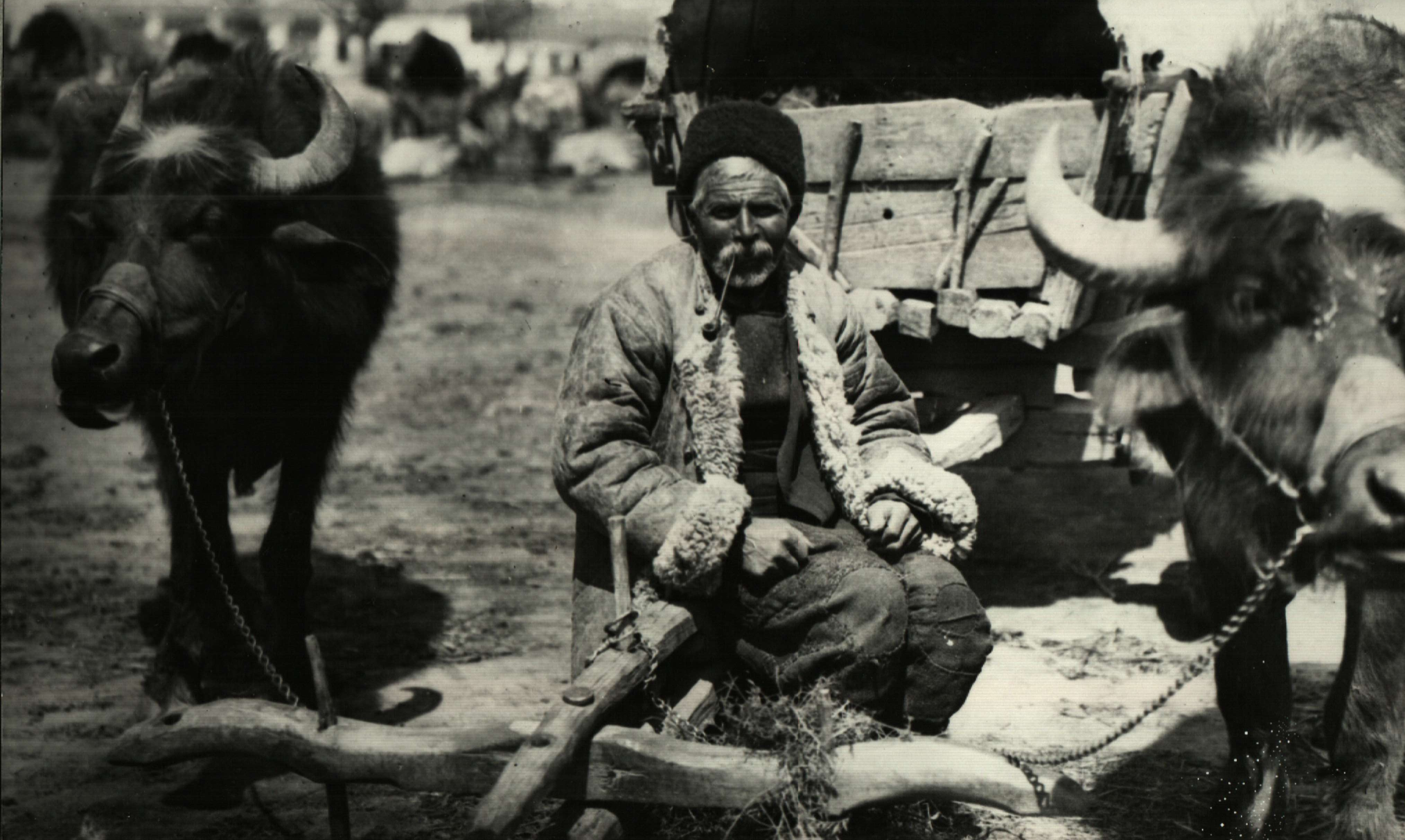 National costume